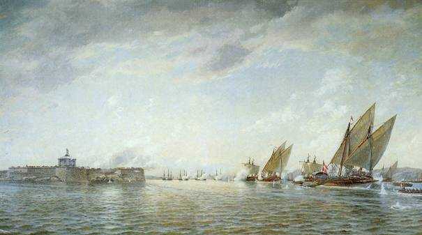 Danish naval forces attacking the Swedish fortress New Älvsborg in the harbour of Gothenburg in 1717.label QS:Len,"Danish naval forces attacking the Swedish fortress New Älvsborg in the harbour of Gothenburg in 1717."